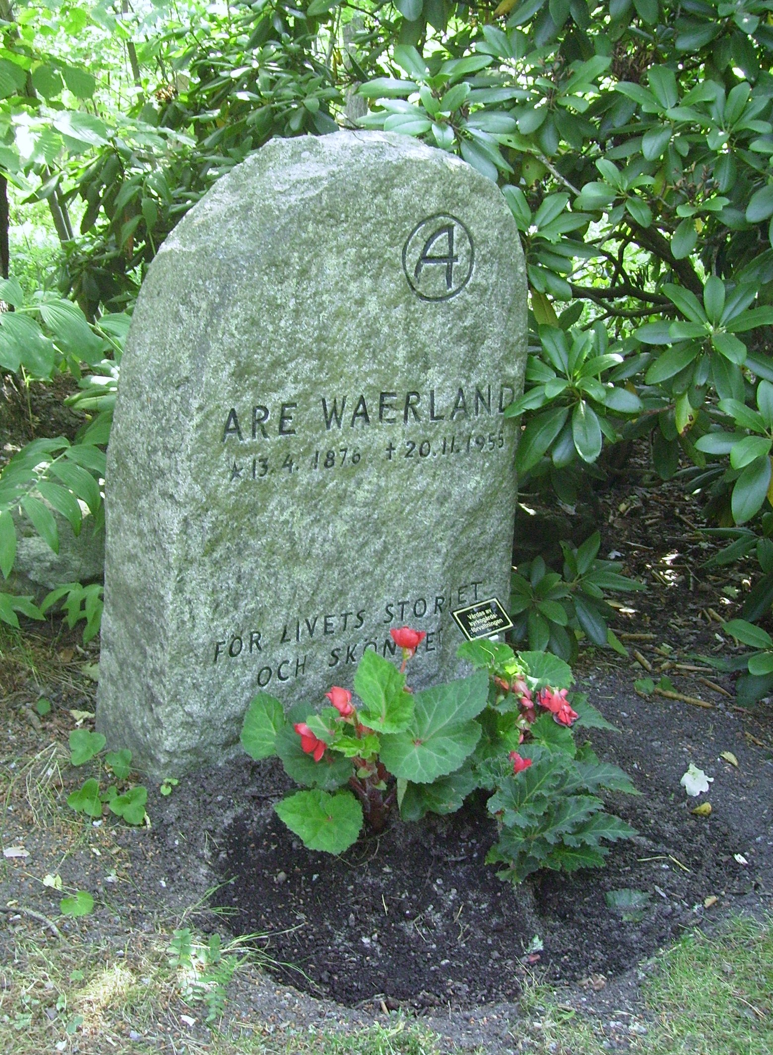 Picture of Are Waerland's grave at Djursholms begravningsplats